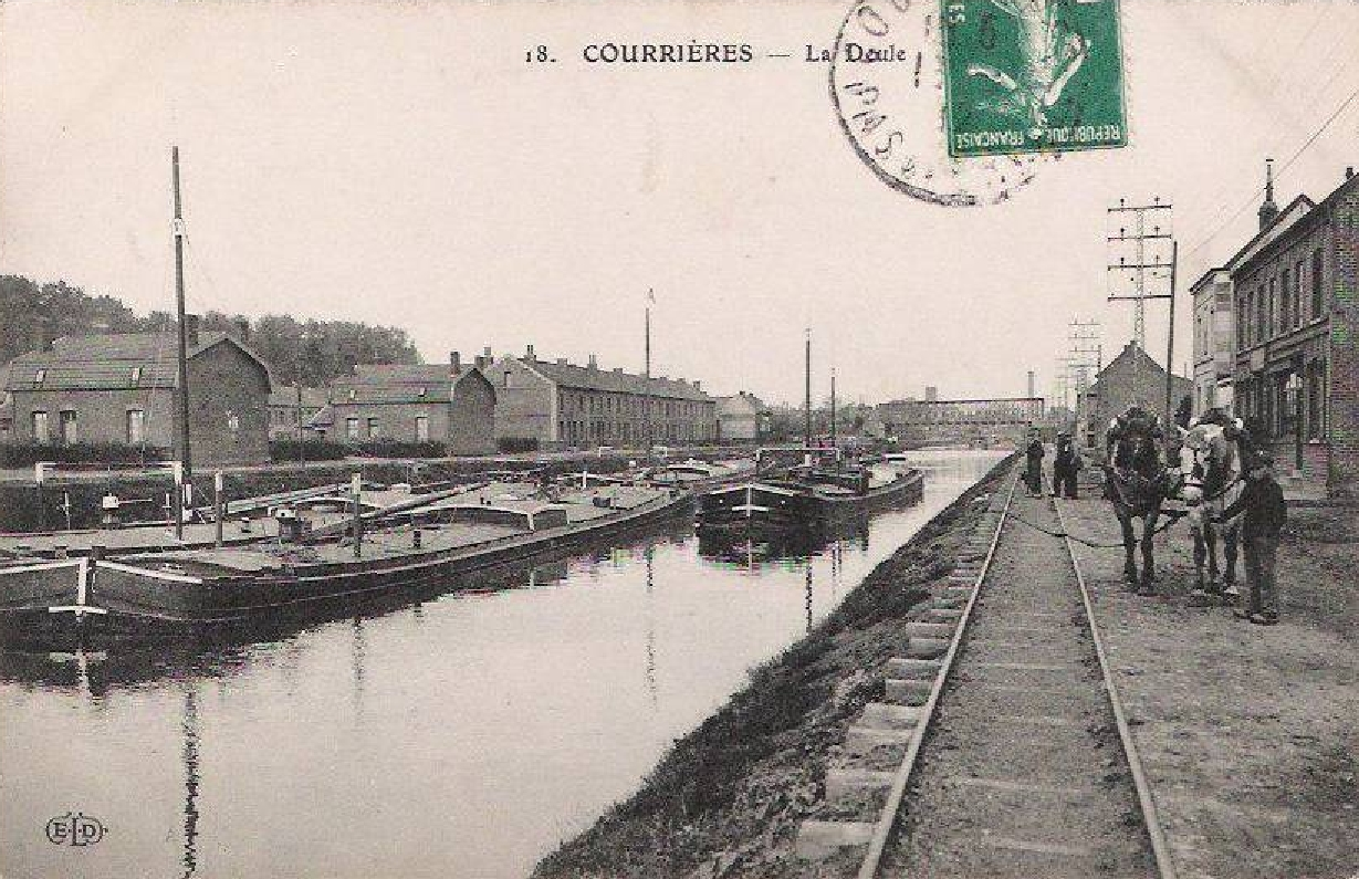 Compagnie des mines de Courrières, France.